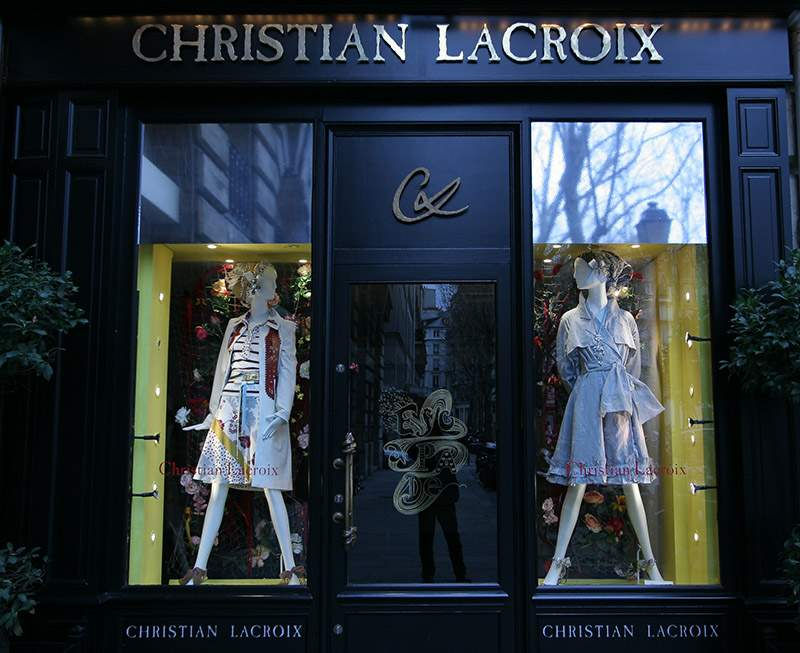 Christian Lacroix shop, Place Saint Sulpice, Paris, France.